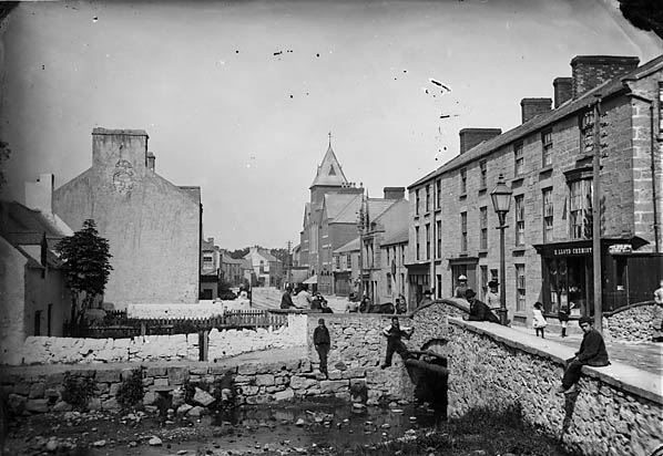 1 negative : glass, wet collodion, b&w ; 12 x 16.5 cm.